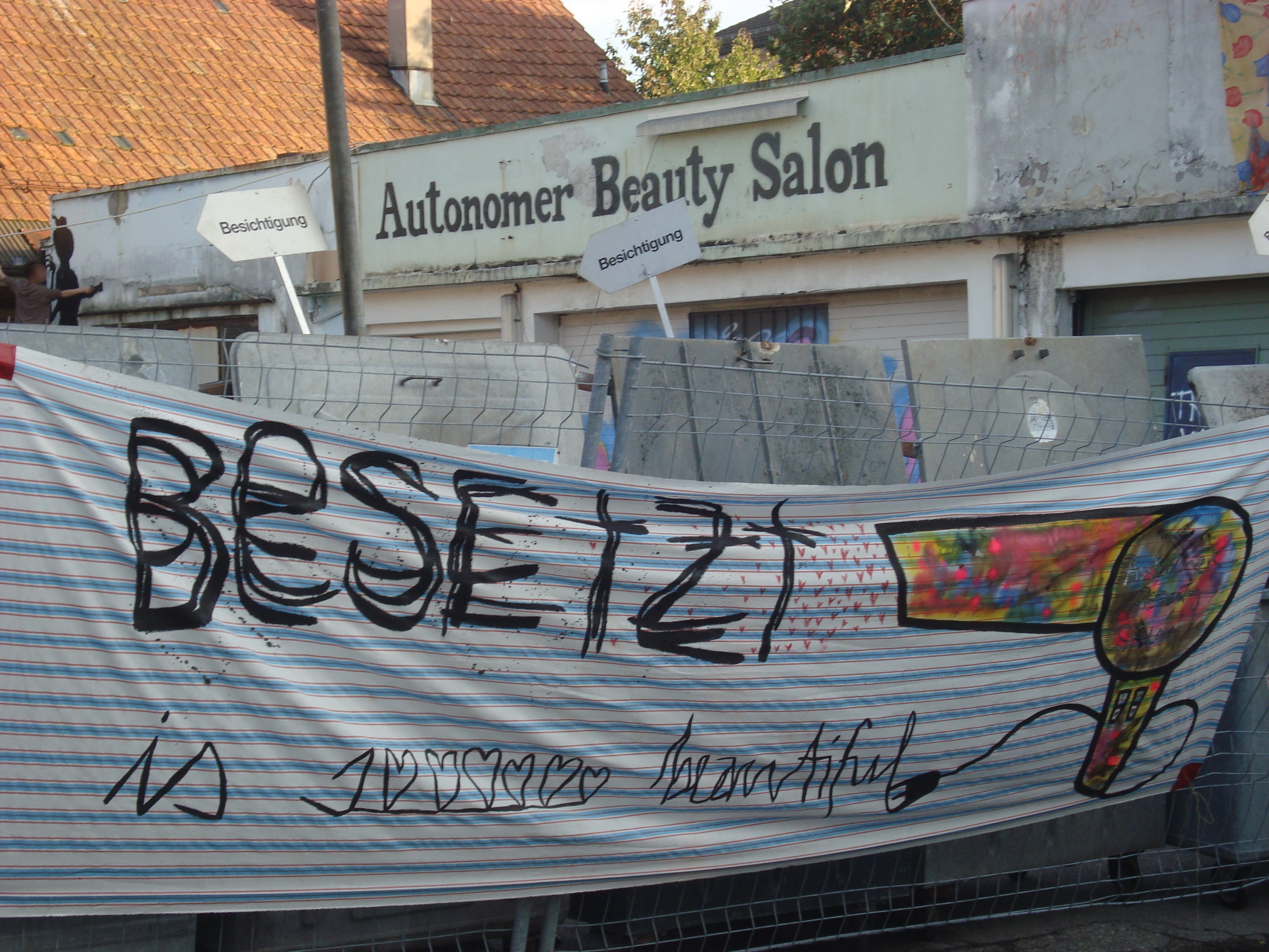 Hausbesetzung "Autonomer Beauty Salon" (September 2011 - August 2014) auf dem Labitzke-Areal im Zürcher Stadtteil Altstetten.